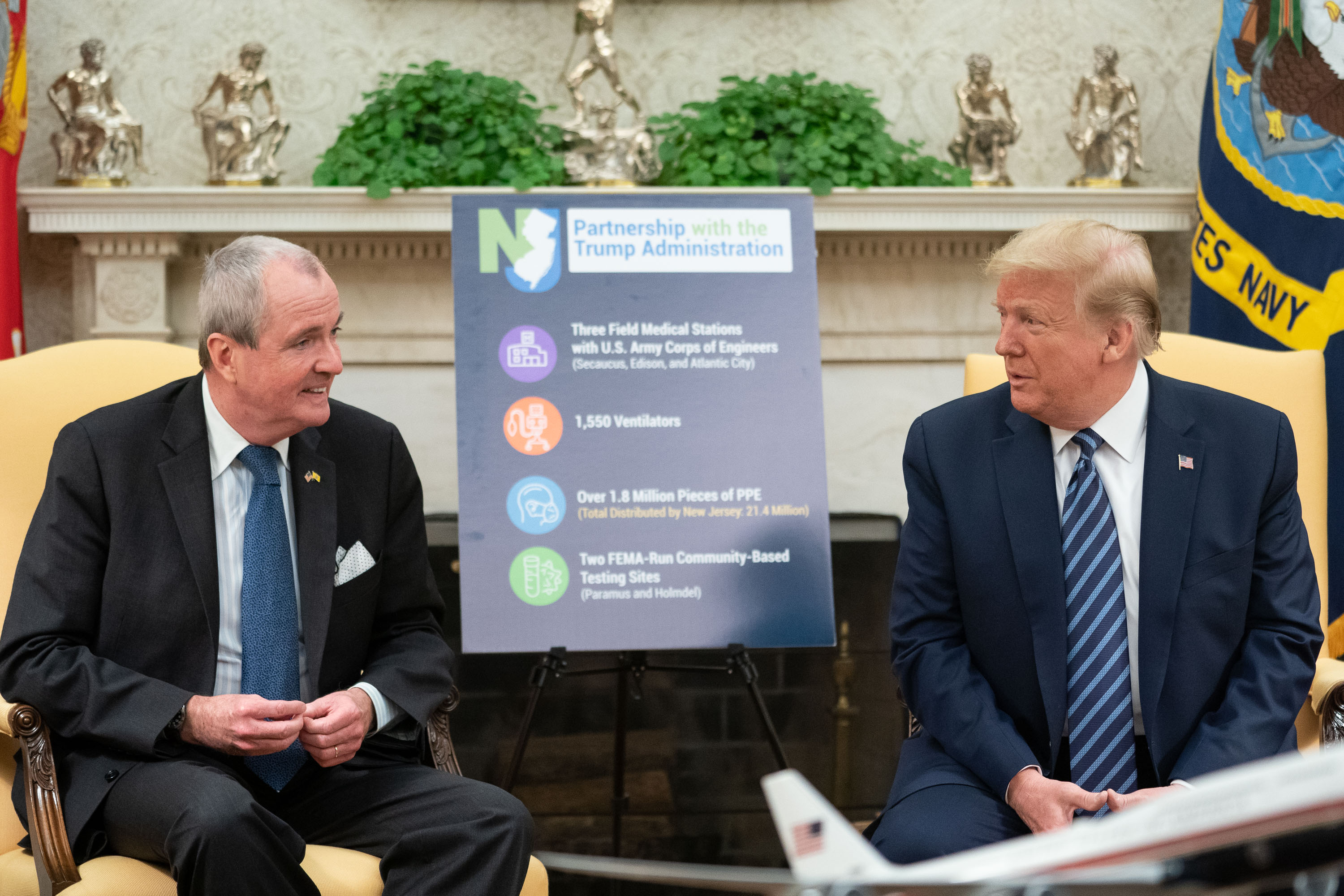 President Donald J. Trump meets with New Jersey Gov. Phil Murphy Thursday, April 30, 2020, in the Oval Office of the White House.(Official White House Photo by Joyce Boghosian)